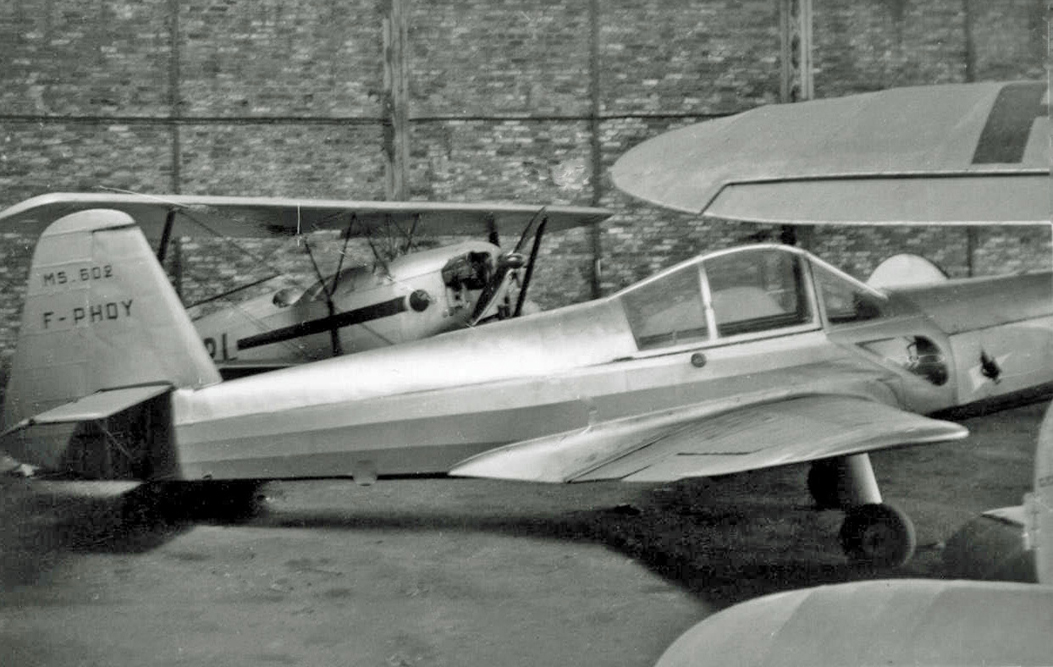 The Morane-Saulnier MS.602 of 1947 at St Cyr airfield near Paris